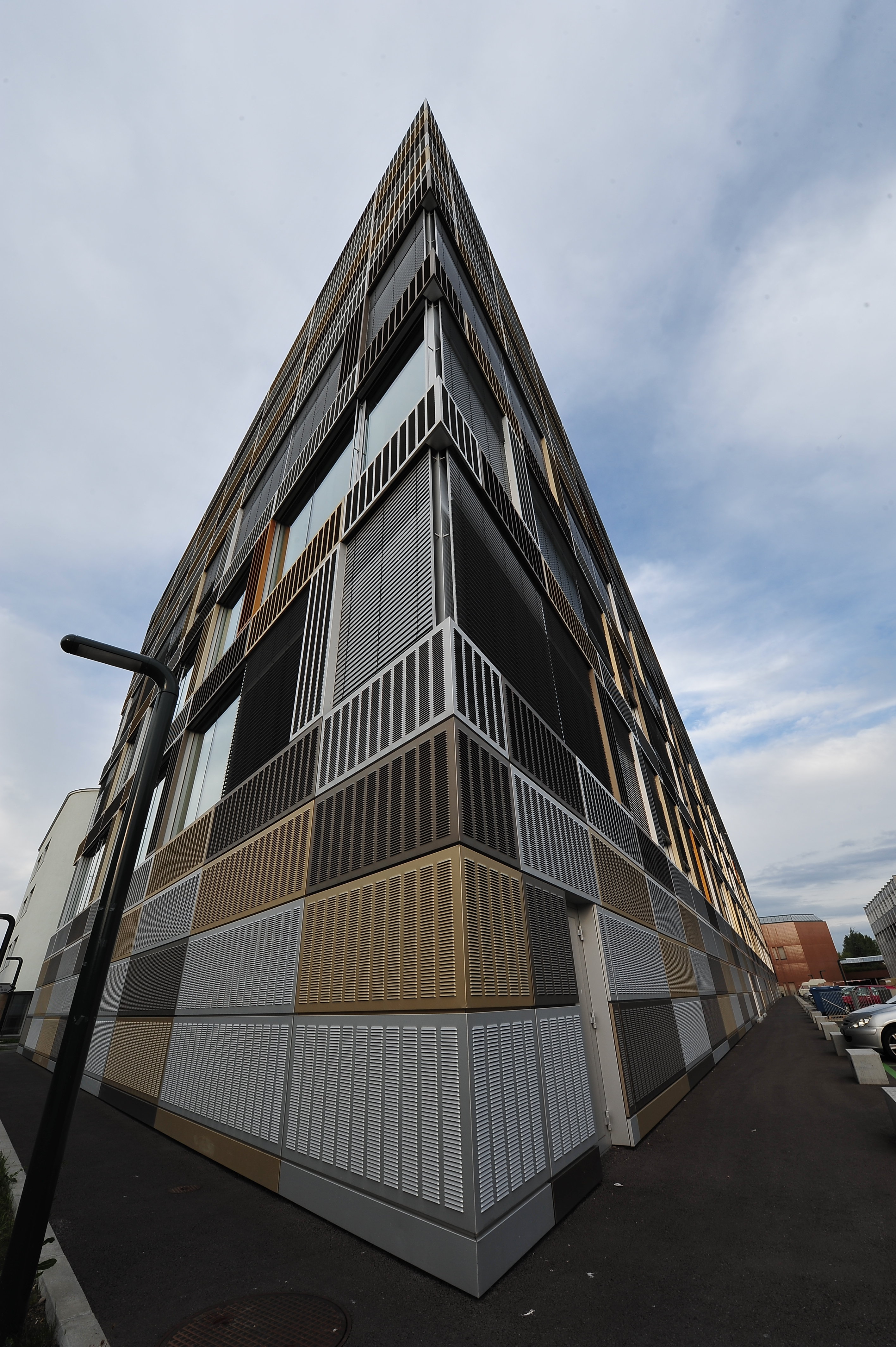 That building (on the EPFL campus) is already wide-angle even if you put no lens before it. Shot with Nikon 14-24mm at 14mm.